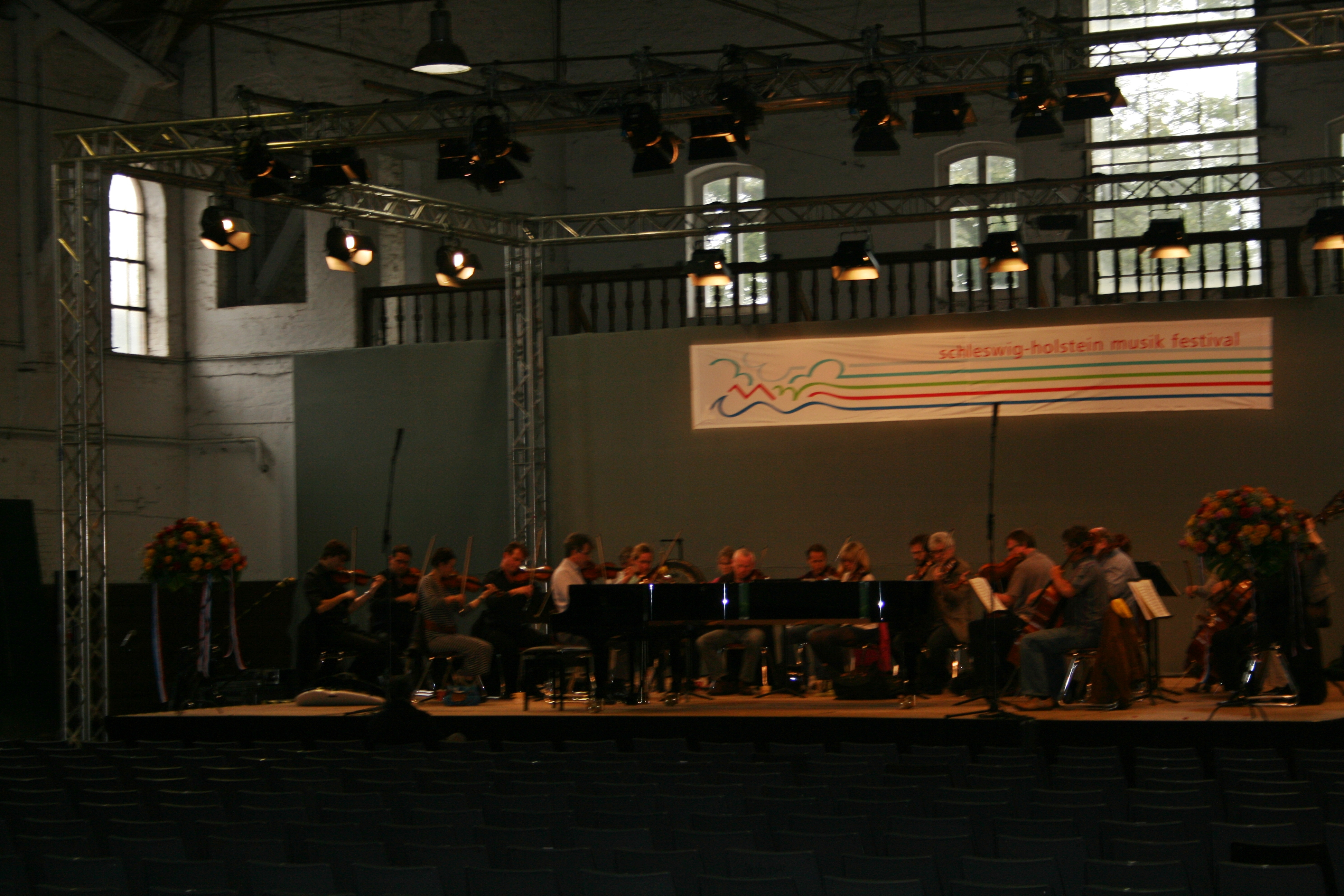 The Academy of St. Martin in the Fields during a rehearsal of Bartok's Divertimento for strings Sz. 113 in Elmshorn